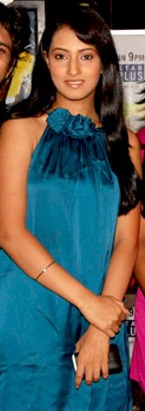 Additi Gupta in Zara Nachke Dikha